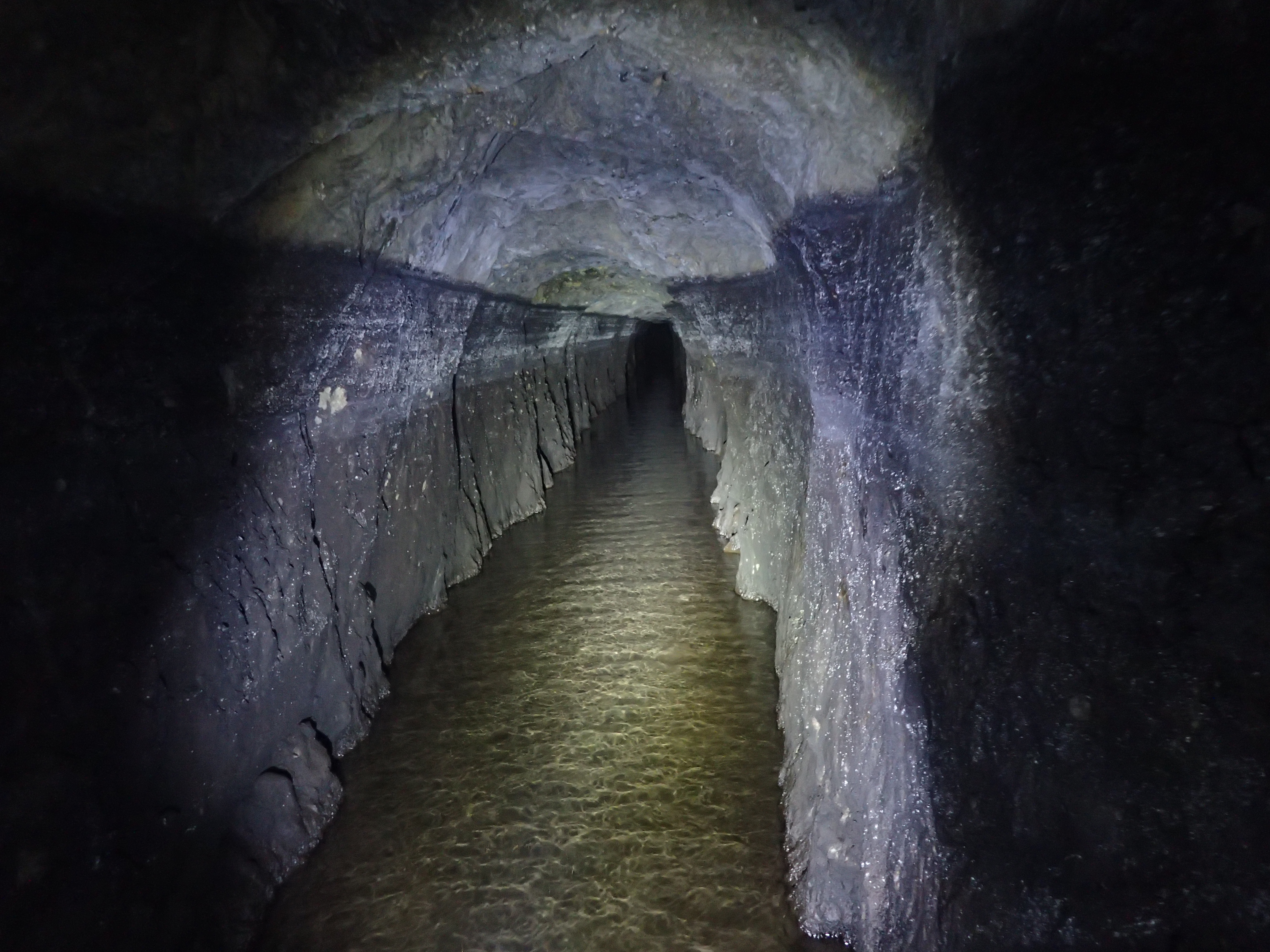 The New Day Level Passage